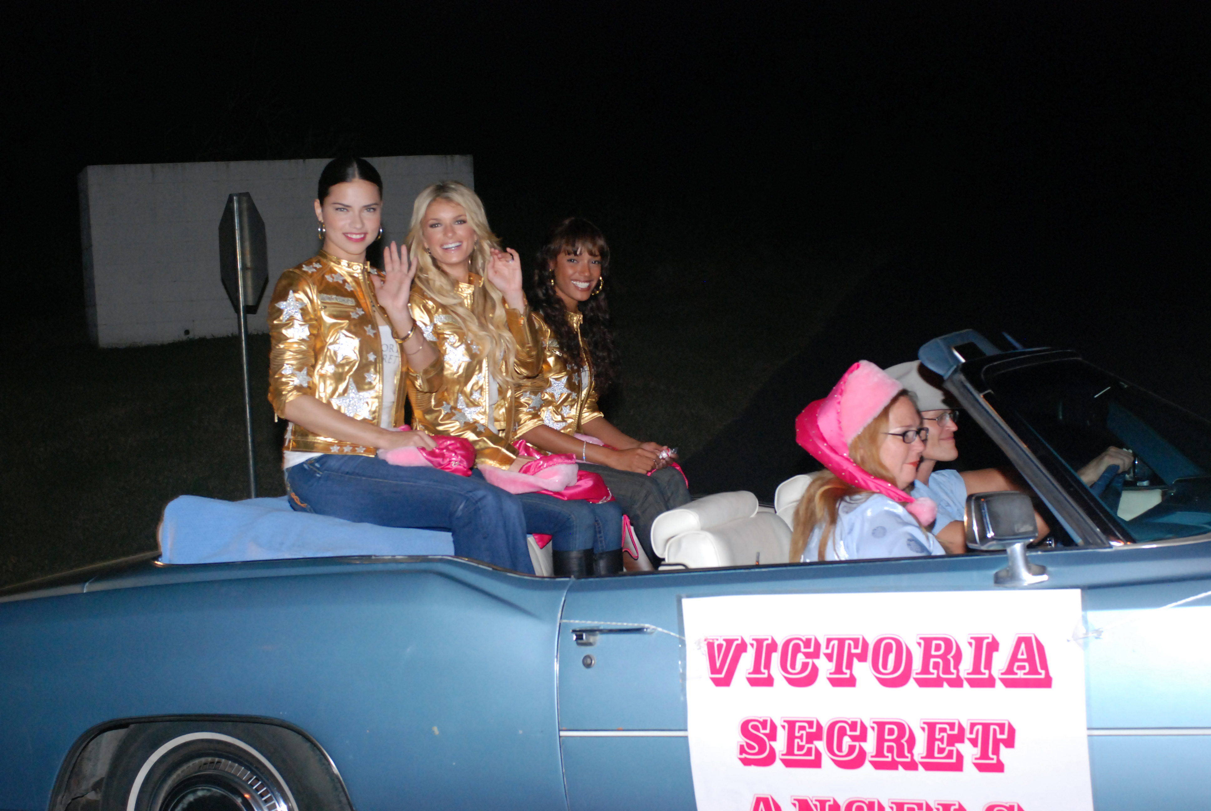 GUANTANAMO BAY, Cuba - Victoria's Secret Angels Adriana Lima (left), Marisa Miller and Selita Ebanks ride in the Guantanamo Bay Christmas Parade Dec. 1, 2007. As part of a USO tour, the Angels models visited Troopers stationed here during the holidays. (JTF Guantanamo photo by Navy Petty Officer 3rd Class William Weinert)